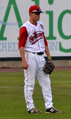 Mike Meyers of the Lowell Spinners stands in the outfield at Edward A. LeLacheur Park in Lowell, Massachusetts in 2014.